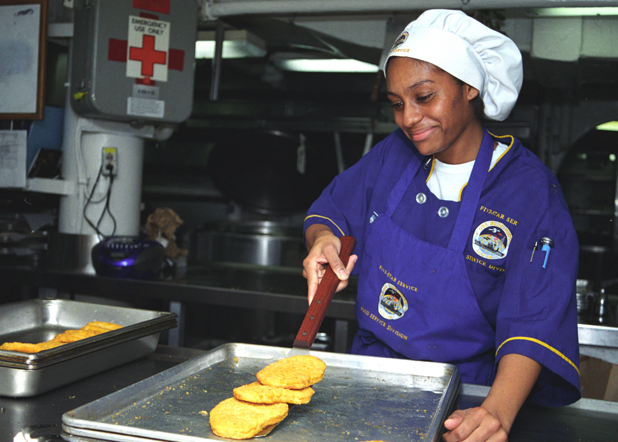 Philippine Sea (Apr. 18, 2003) -- Mess Management Specialist 3rd Class Stacey Davis from New York, N.Y. moves chicken patties from the baking pan to a serving dish in preparation for the evening meal aboard USS Blue Ridge (LCC 19). U.S. Navy photo by Photographer’s Mate Airman Kerri Lynn Ackman. (RELEASED)